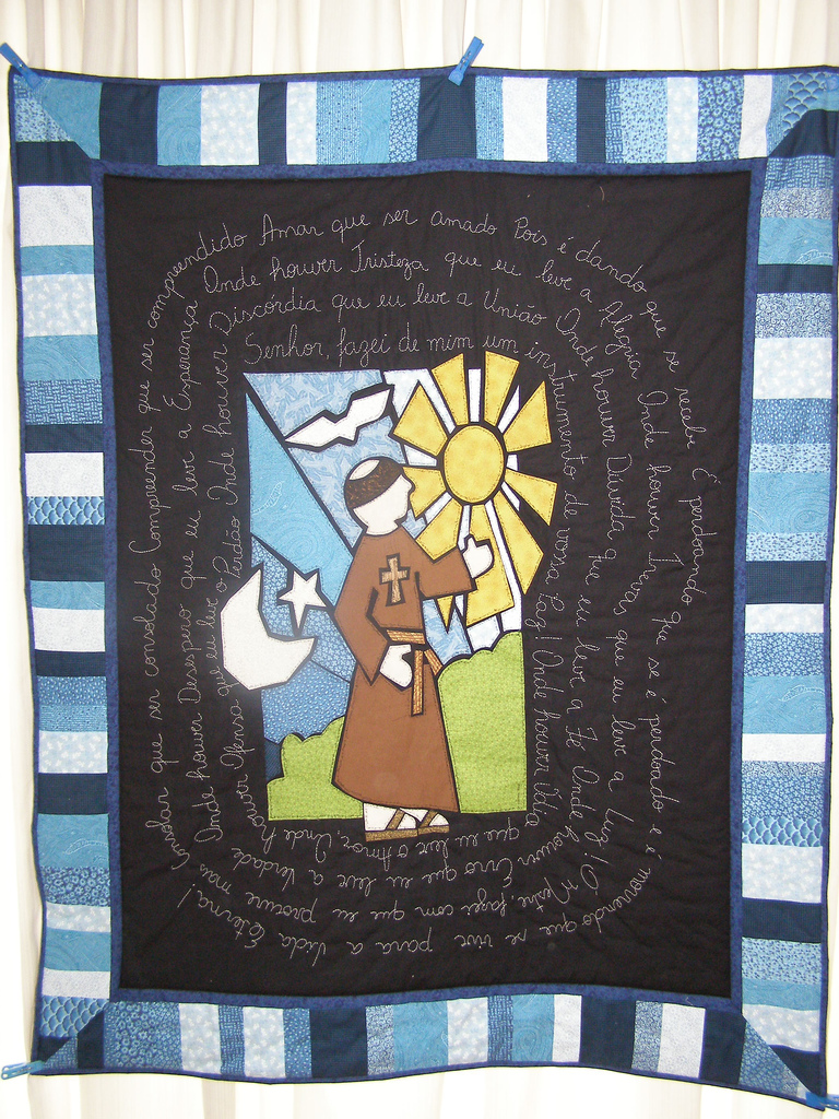 Francis of Assisi in patchwork.